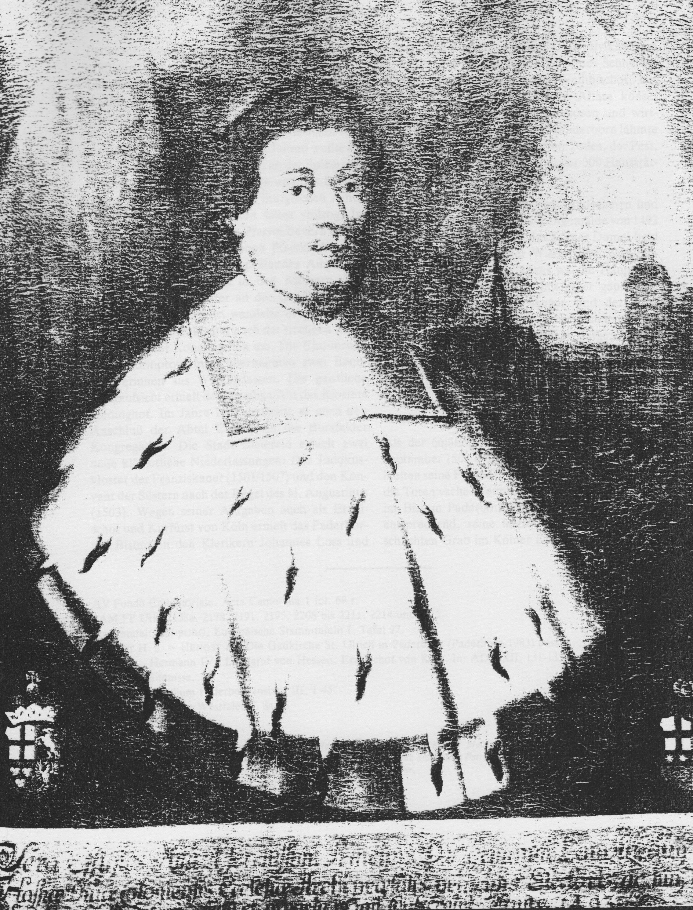 Portrait of Hermann IV of Hesse (1450-1508)